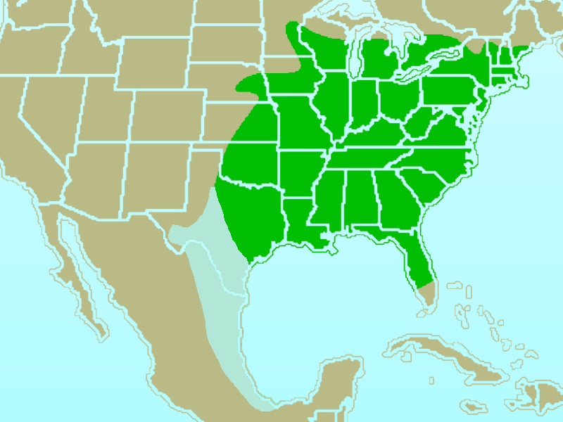 Approximate range/distribution map of the Tufted Titmouse (Baeolophus bicolor; green) - Black-crested Titmouse (Baeolophus atricristatus; pale violet) complex. In keeping with WikiProject: Birds guidelines, yellow indicates the summer-only range, blue indicates the winter-only range, and green indicates the year-round range of the species.